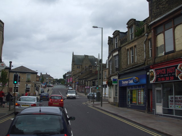 Glossop Town Centre